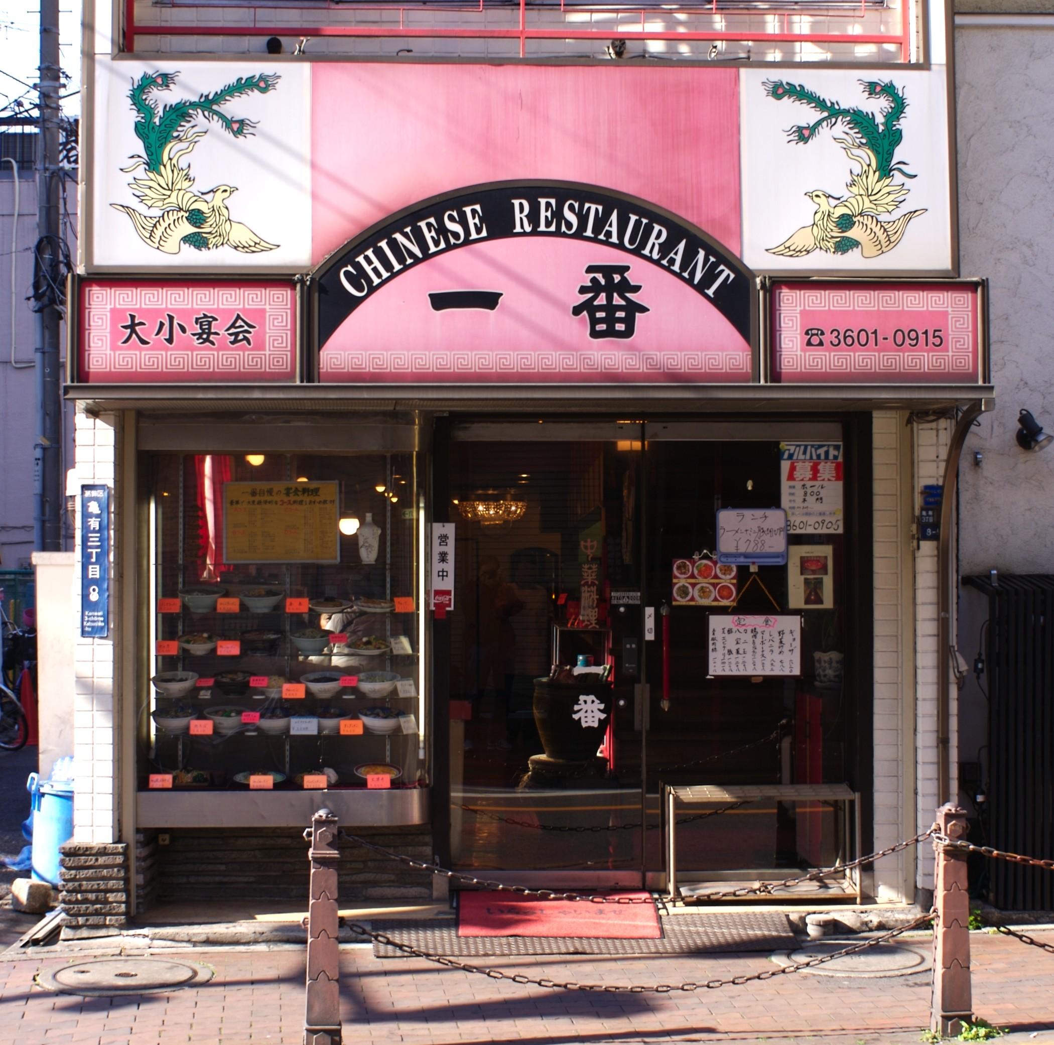 A photograph of the front entrance and display window of a Chinese restaurant called Ichiban in Katsushika-ku, Tokyo, taken on December 23, 2006, by Tom Gally.